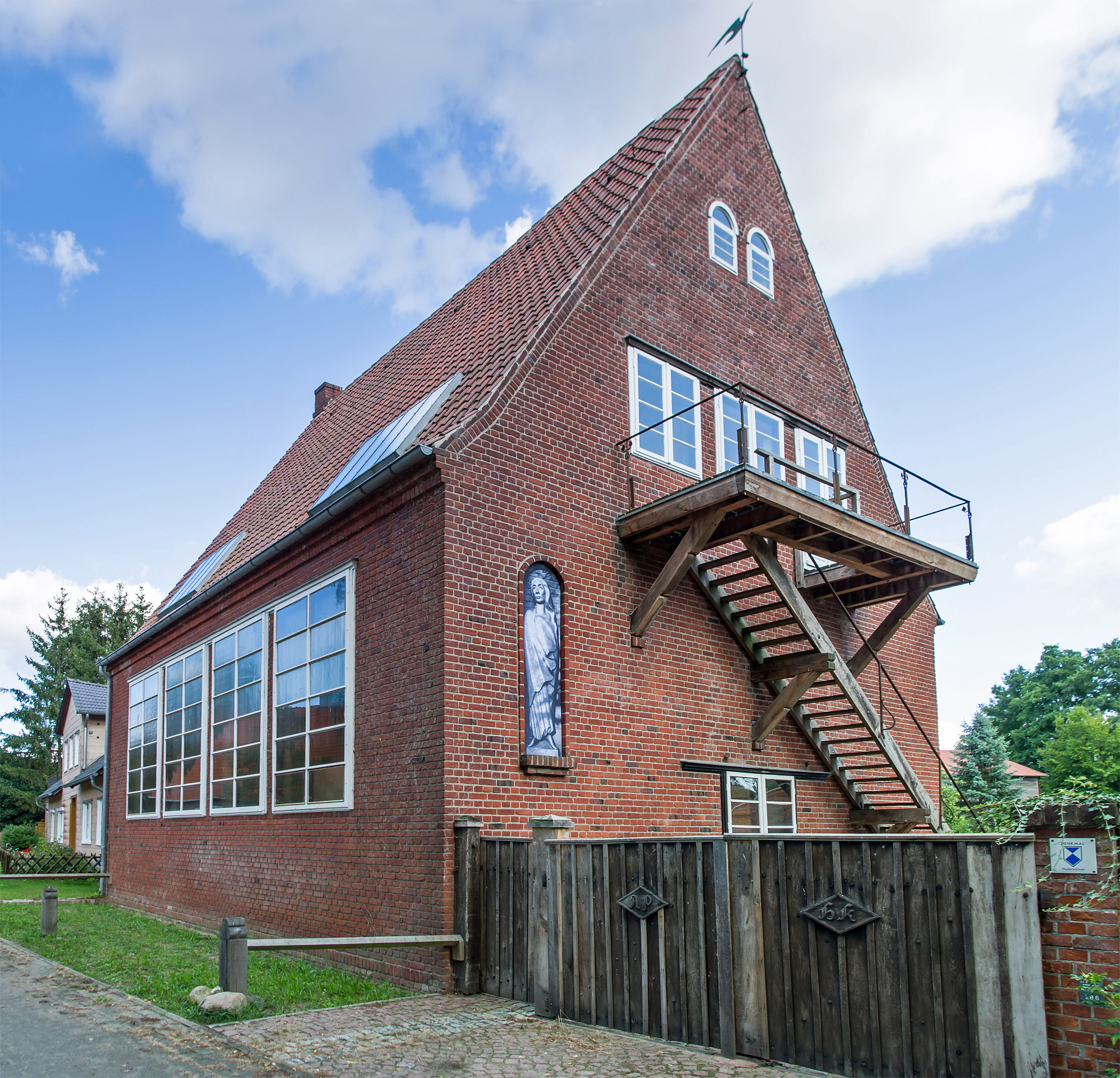 Art studio of Hugo Körtzinger in Schnega (district Lüchow-Dannenberg, north-eastern Lower Saxony, Germany), built in 1936/37.